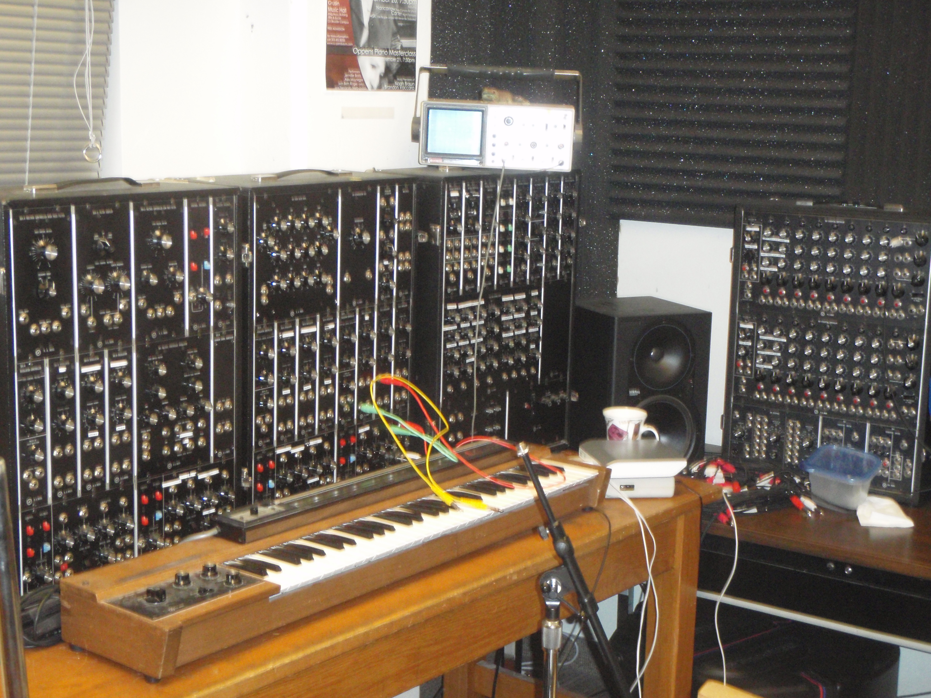 The CRuNCh Lab Moog Moog 3P (1972) (left, 3 piece model) extra sequencer module (right) References Voltage Controlled Passacaglia For Moog Modular Synthesizer. (2009-11-01). "Performed on the CRuNCh lab 1972 Moog Modular synthesizer, with video projection of an attached oscilloscope." Paul Hembree (2009-10-27). Voltage Controlled Passacaglia, Pages 1 & 2, by Paul Hembree (Premiere). YouTube. Paul Hembree (2009-10-27). Voltage Controlled Passacaglia, Pages 3 & 4, by Paul Hembree (Premiere). YouTube.